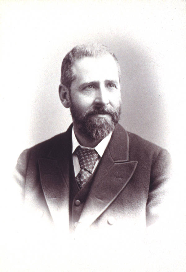 Portrait of Andrew Inglis Clark.